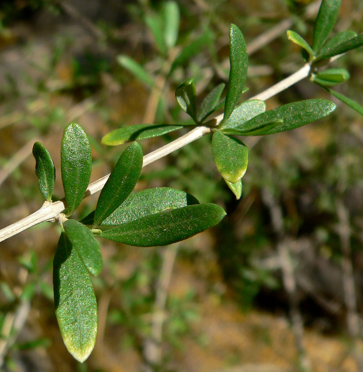 Forestiera angustifolia at the Ethel M Botanical Cactus Garden, Las Vegas, Nevada